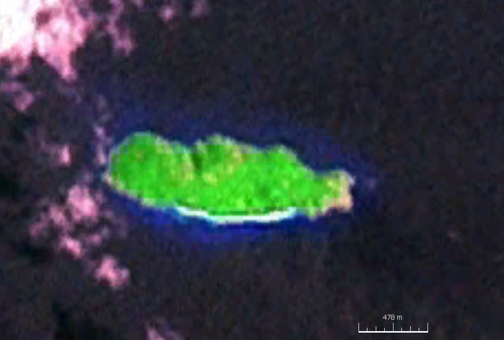 Aride Island, Seychelles (north of Praslin) Geocover 2000